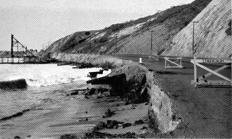 Highway damage from Minnie A Caine wreck 1940